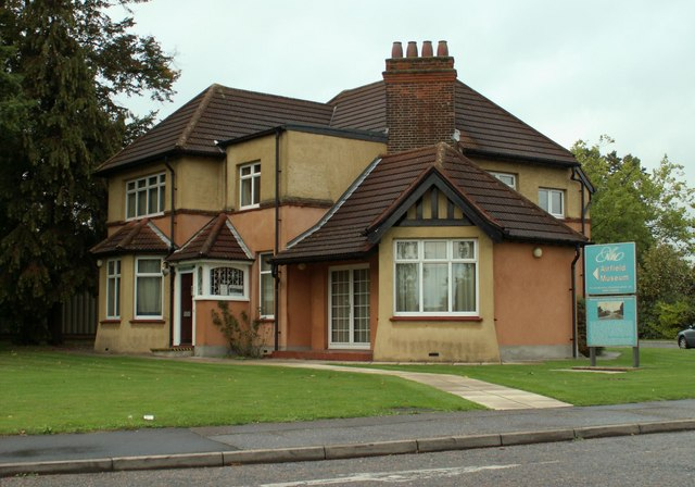 North Weald Airfield Museum The museum is housed in the former RAF North Weald Station Office. It is adjacent to what was the main entrance to this former Battle of Britain Fighter Station.